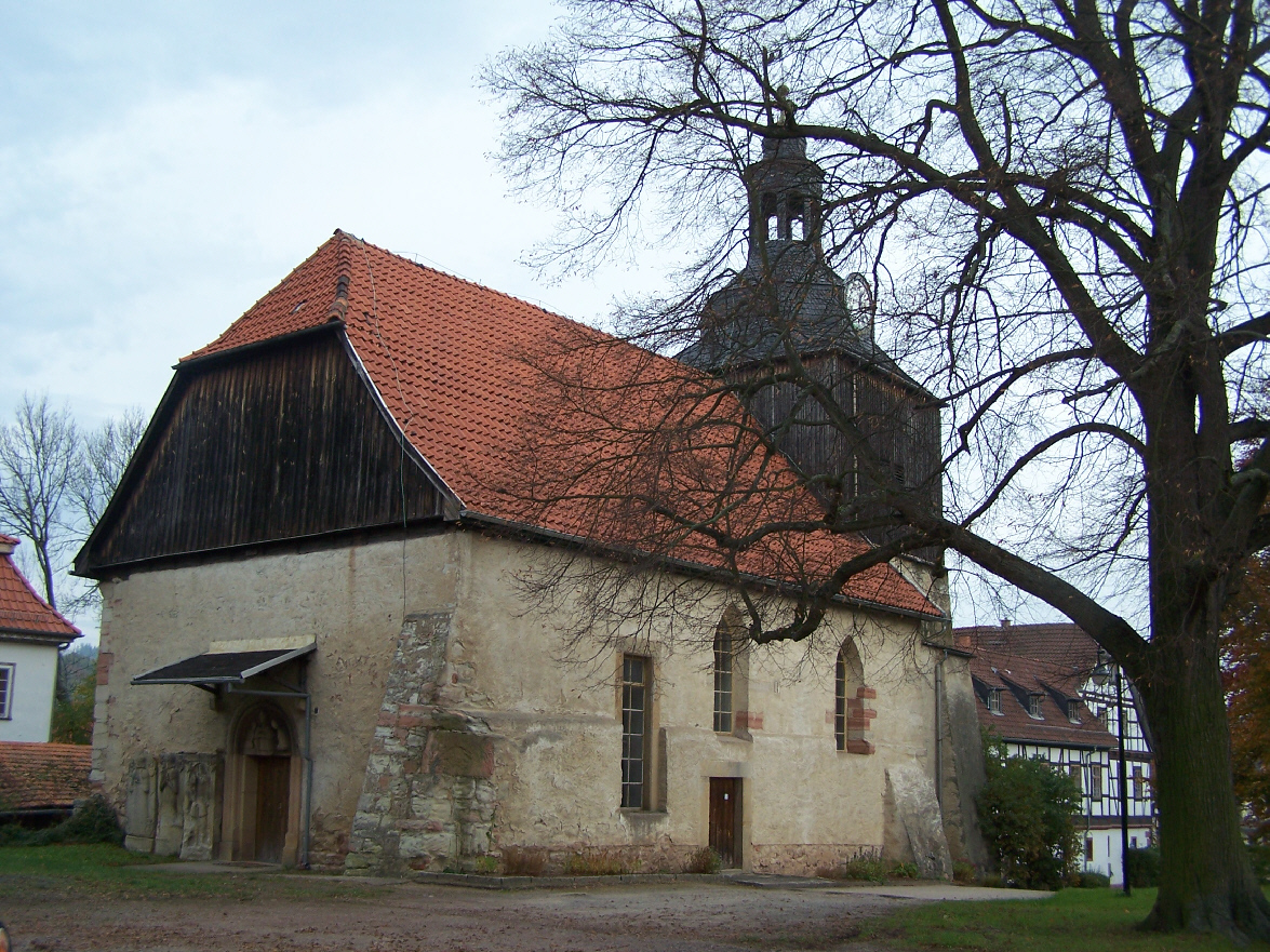 The church in Oberellen.